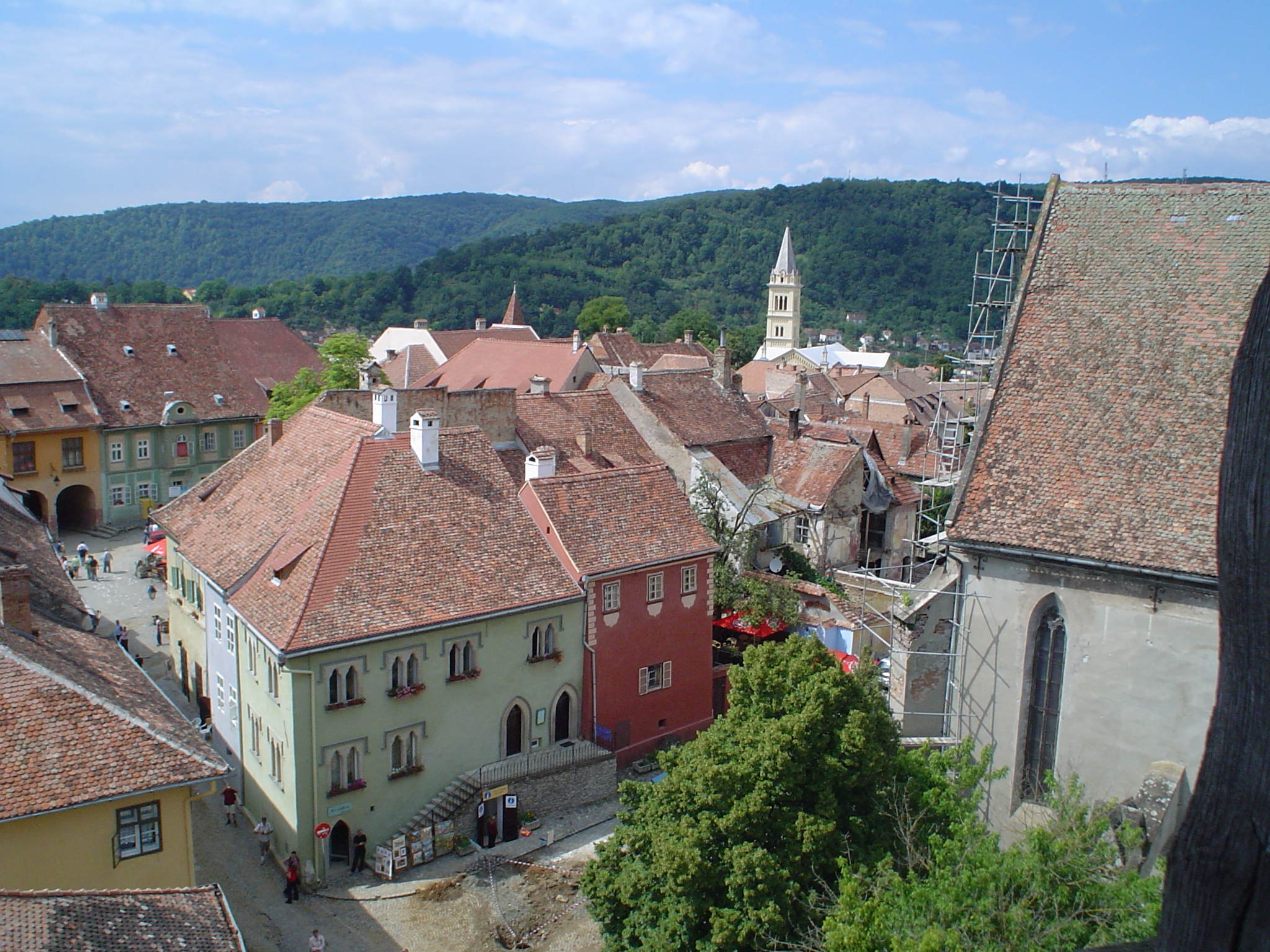 2007-07-13 Sighişoara, Transylvania, Romania: View from the top of the Clock Tower.